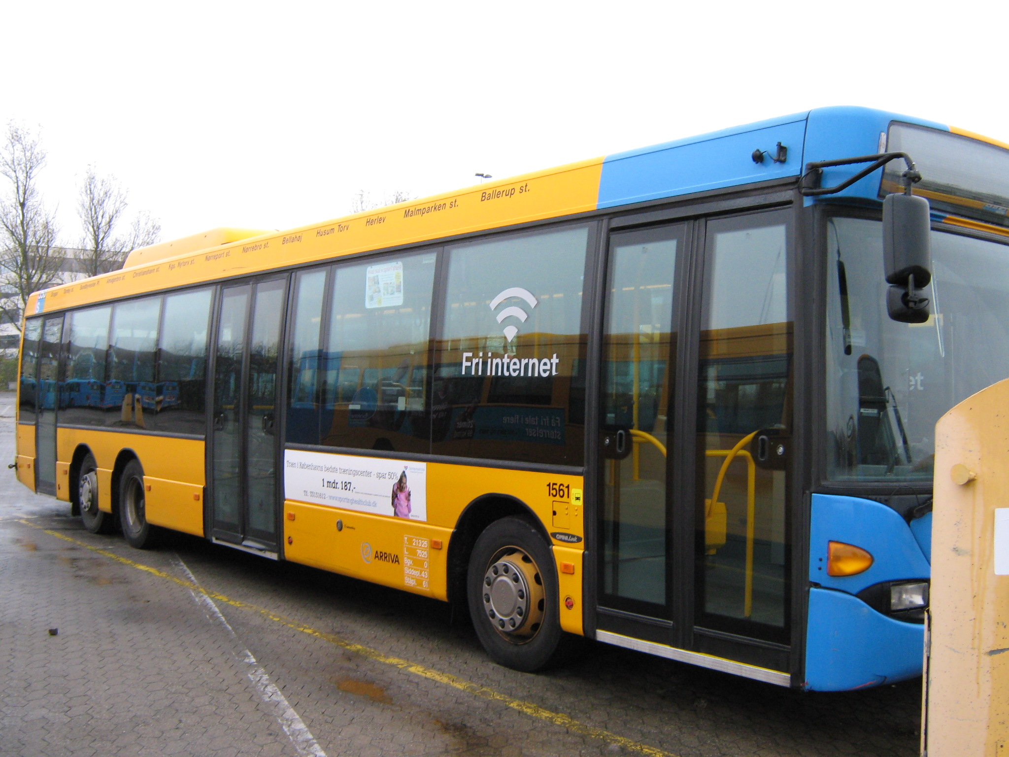 Arriva Scania OmniLink bus, internal number 1561 in Gladsaxe garage.